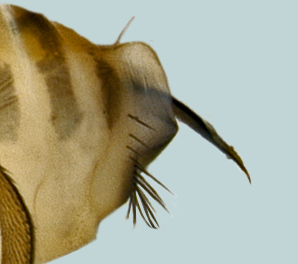 Adult female Apocephalus borealis, ovipositor= detail of photography from Core A, Runckel C, Ivers J, Quock C, Siapno T, et al. (2012). "A new threat to honey bees, the parasitic phorid fly Apocephalus borealis". PLoS ONE 7 (1). Retrieved on 04 January 2012.